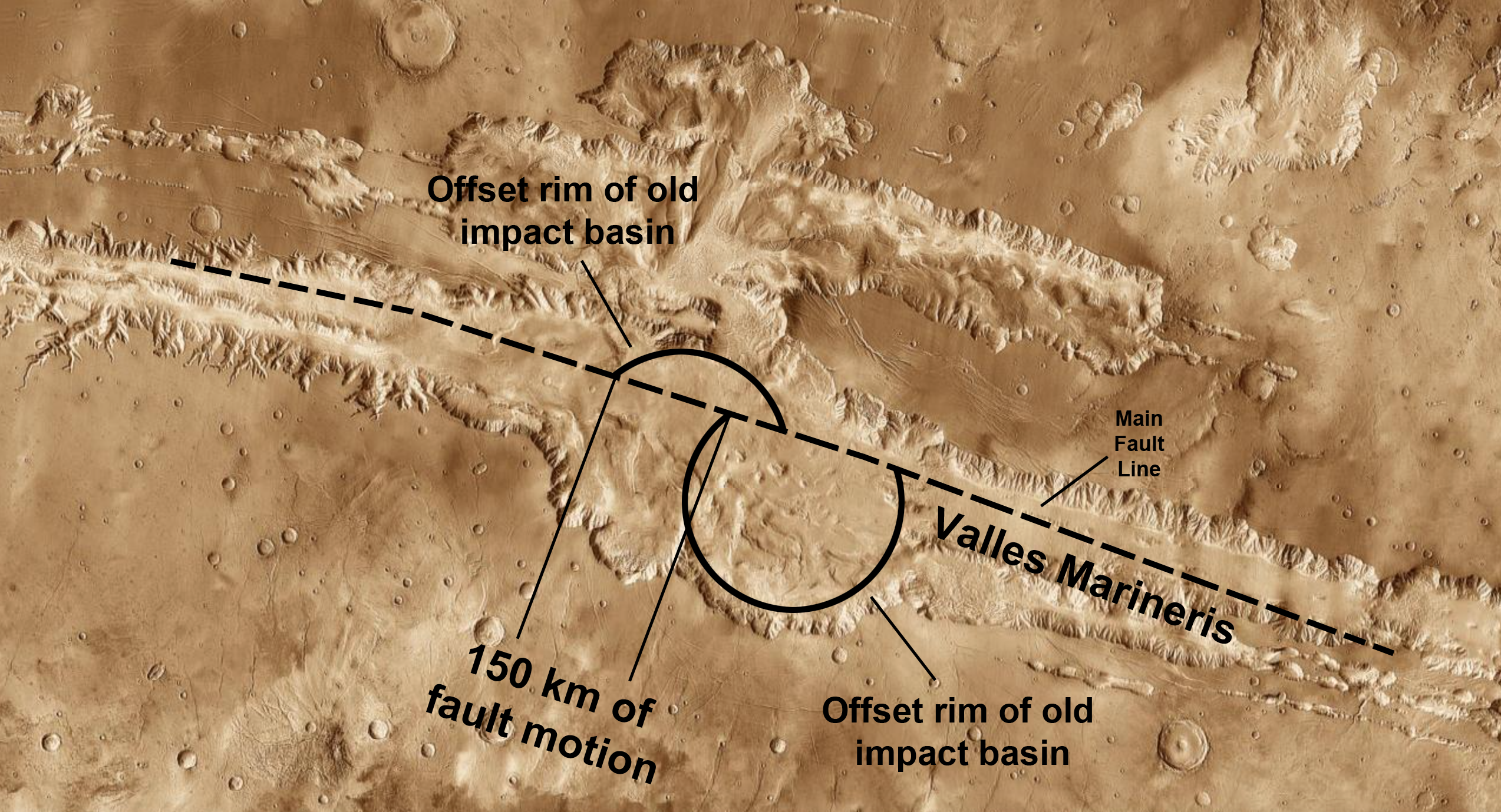 Fig. 6. Diagram showing relative fault motion in the Valles Marineris trough system, as indicated by the offset rim of an old impact basin, image modified from NASA/MOLA Science Team.